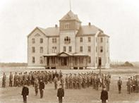 Scanned picture of FUMA barracks from 1899